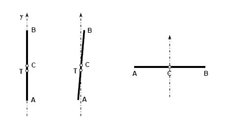 Center of gravity in actual field on the surface of Earth